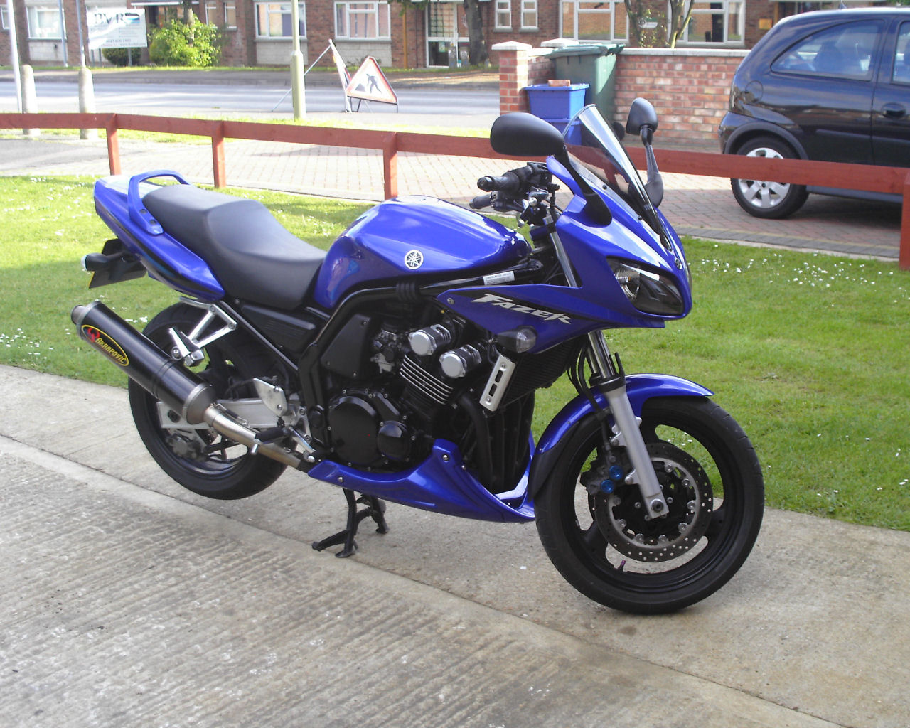 2003 Yamaha FZS600 Fazer in Deep Purplish Blue Metallic. Akrapovic exhaust and official Yamaha bellypan